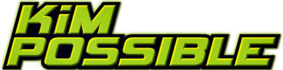 Logo of Kim Possible